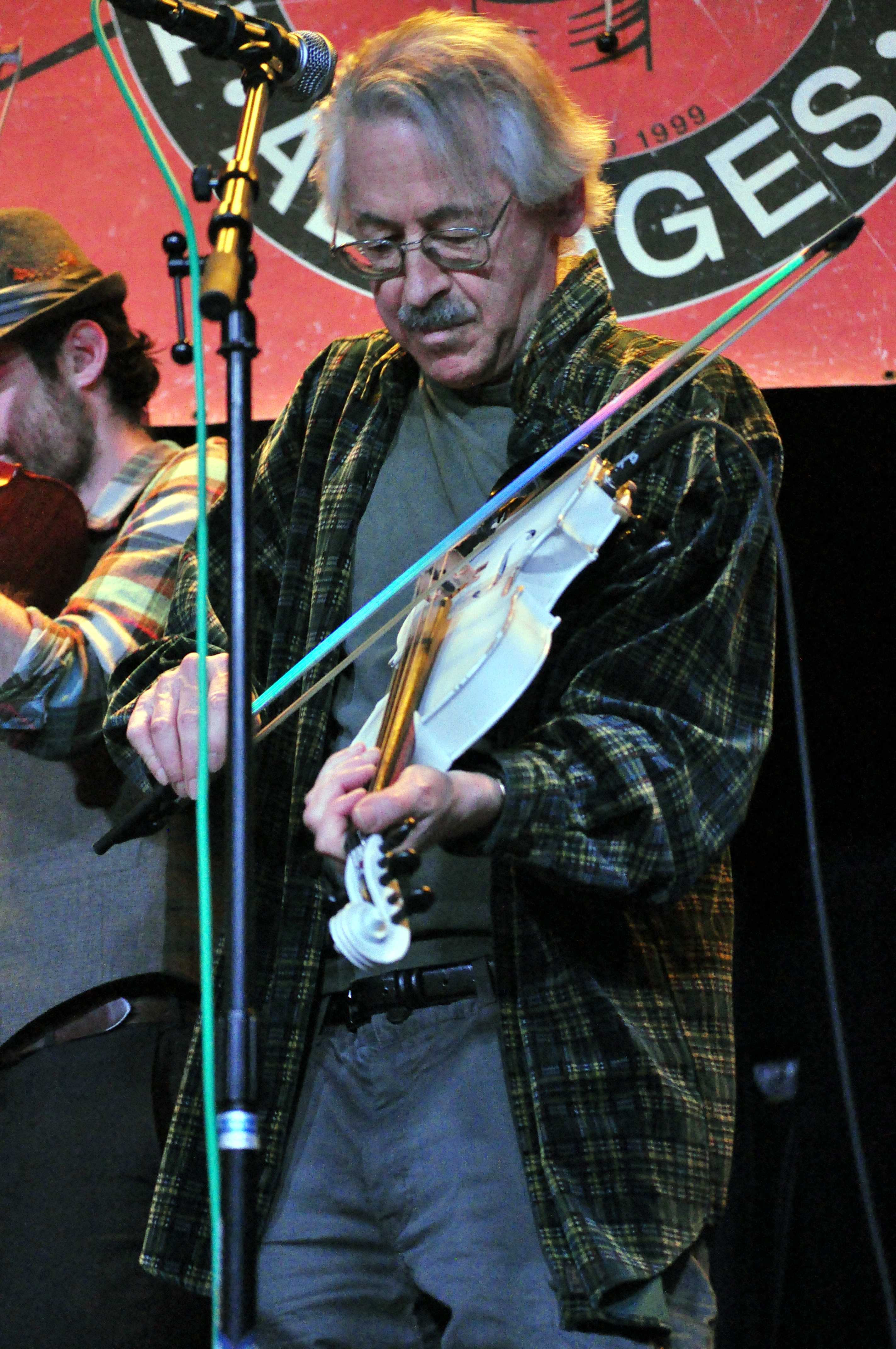 New York musician Peter Stampfel, performing at the Vera Project, Seattle, Washington, USA.